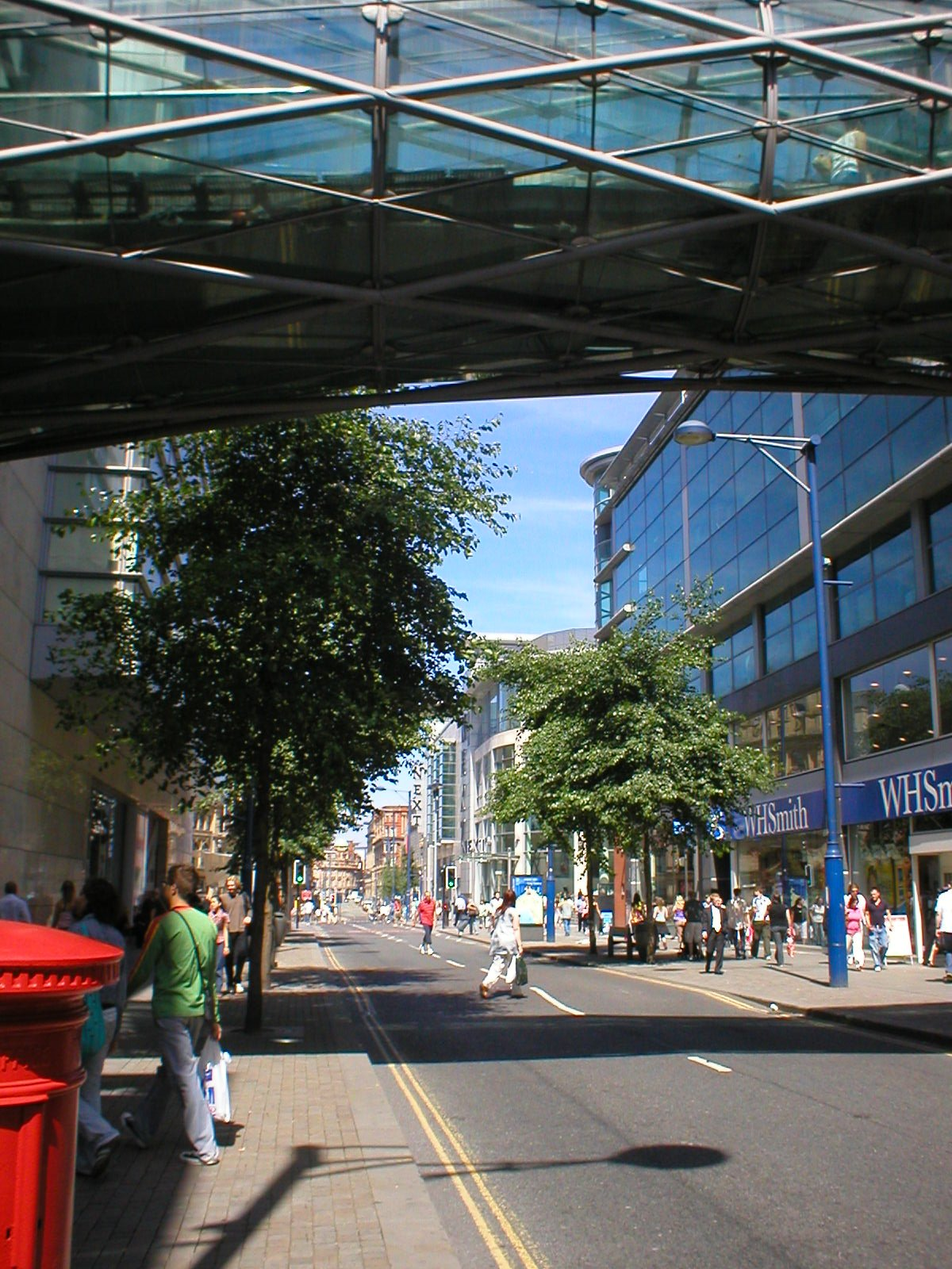 A view north along Corporation Street, Manchester, site of the 1996 bombing. The Manchester bombing memorial postbox is on the left.